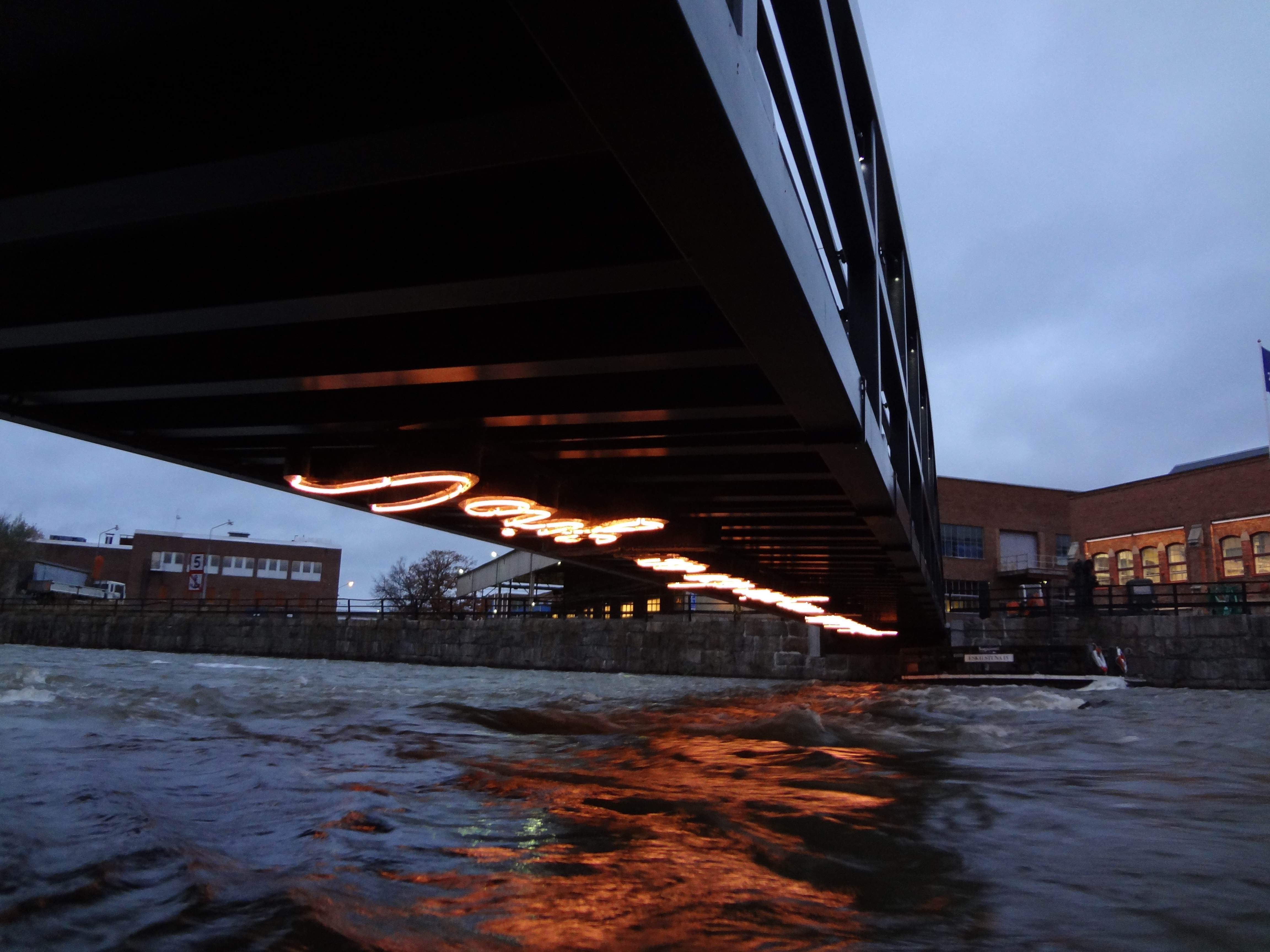 Anamorf, art made by David Svensson under a brigde in Eskilstuna, Sweden.